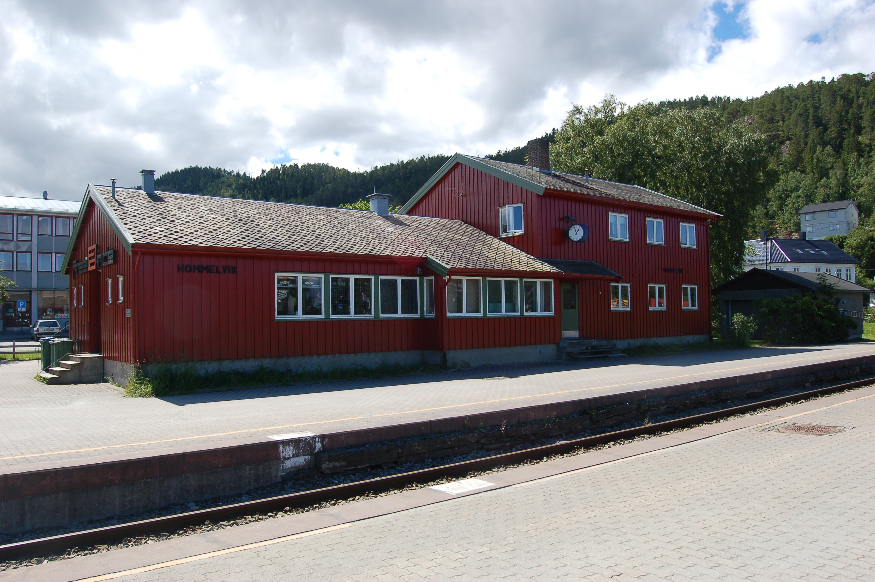 Hommelvik Station on Nordlandsbanen, in Malvik, Norway.